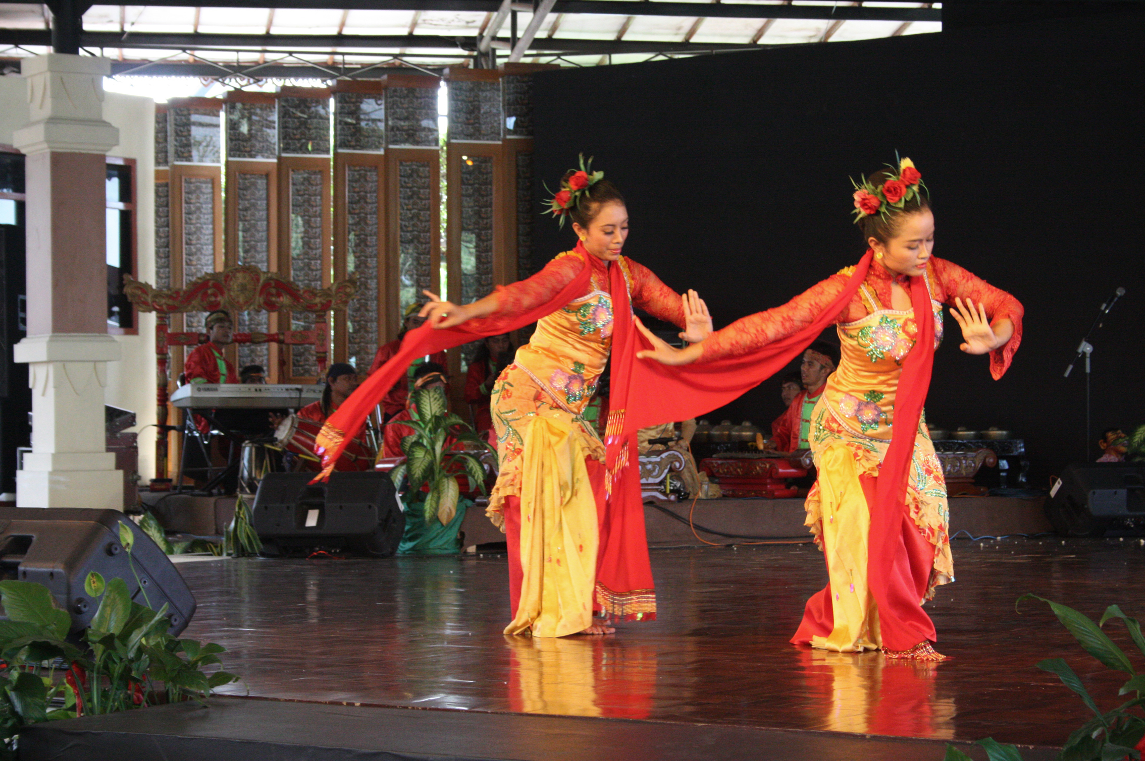 The Sundanese Jaipongan Langit Biru dance performance in West Java Pavilion, Taman Mini Indonesia Indah, Jakarta.